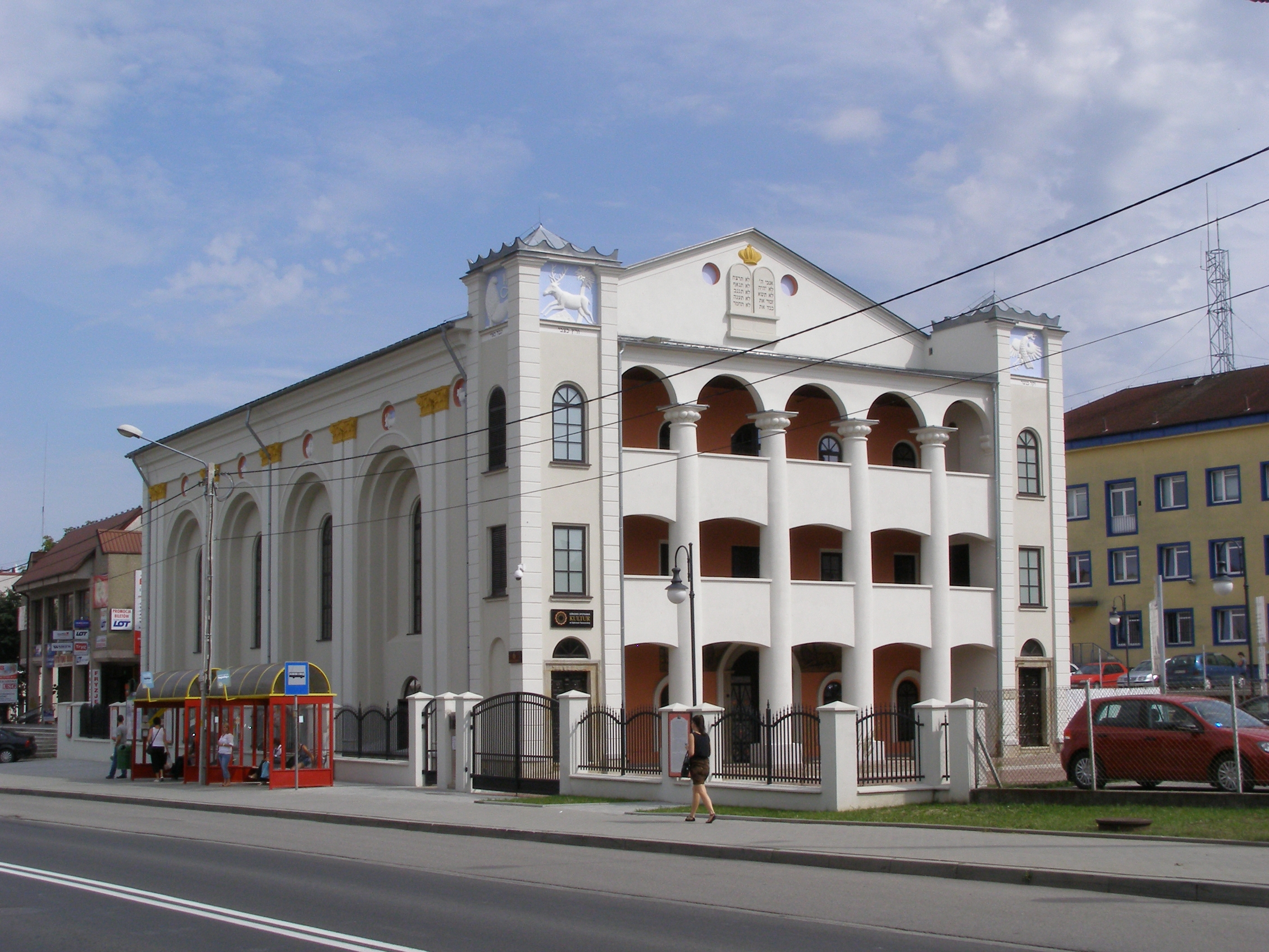 Dąbrowa Tarnowska - synagogue